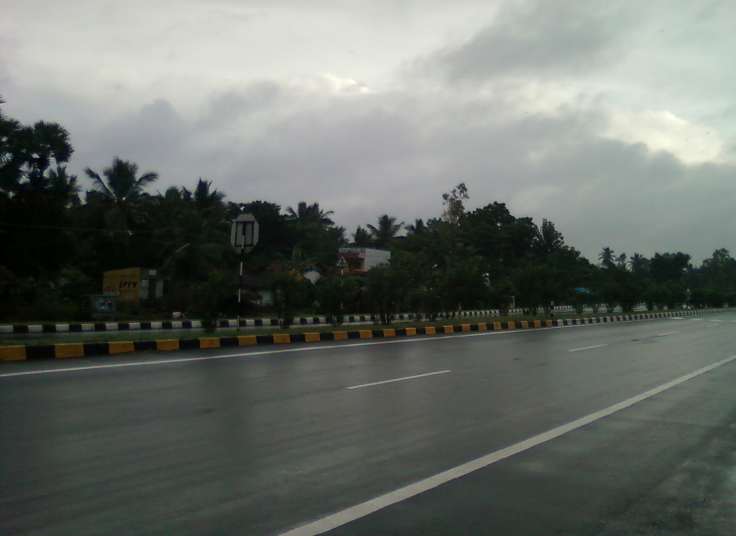 The National Highway (Chennai-Howrah) at Kasimkota of Visakhapatnam District on a rainy day